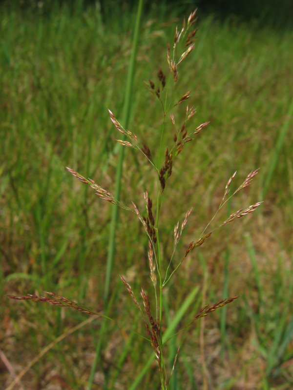 Rotes Straußgras Agrostis capillaris (A. tenuis), Zingst